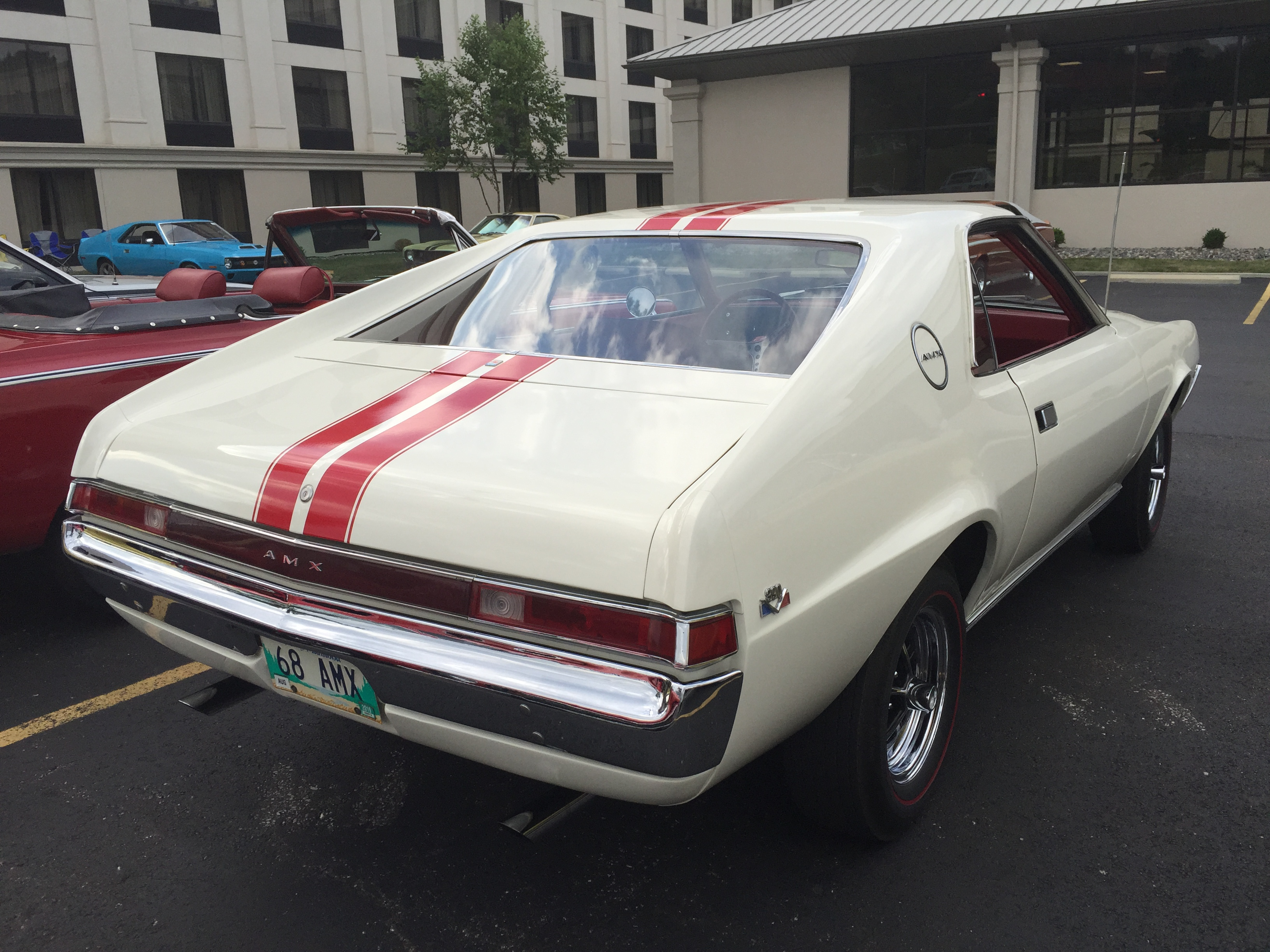 1968 AMC AMX, a two-seat GT-style sports muscle car built by American Motors Corporation (AMC). This Frost White (paint code P72A) AMX has red racing stripes and chrome road wheels with red stripe tires, all were included with the Go Package. This car has AMC's 390 cu in (6.4 L) 4-bbl 315 horsepower V8 engine. The interior is in red. The door panel is a 1969 version. Picture taken during the American Motors Owners Association (AMO) annual convention that was held July 2015 near Cleveland, Ohio.